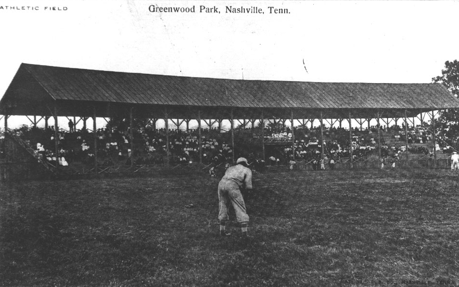 A baseball game at Greenwood Park (Tennessee), the first urban park and recreation area established for the African American community in Nashville, Tennessee. The park opened in 1905 and closed in 1949.